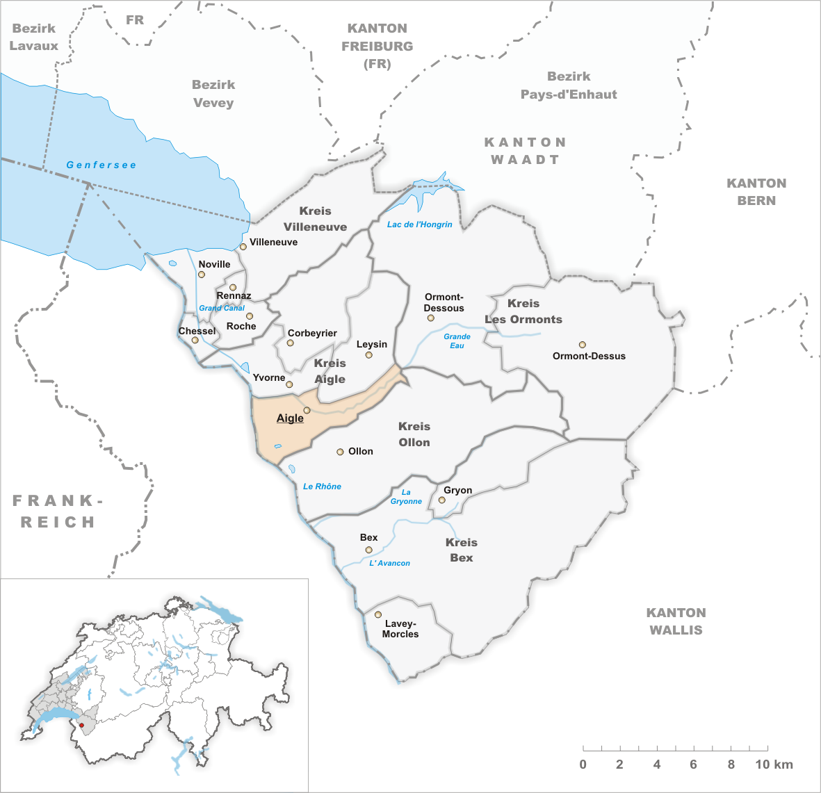 Municipality Aigle